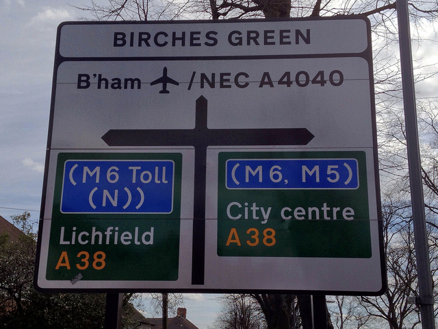 Roadsign showing Birches Green name